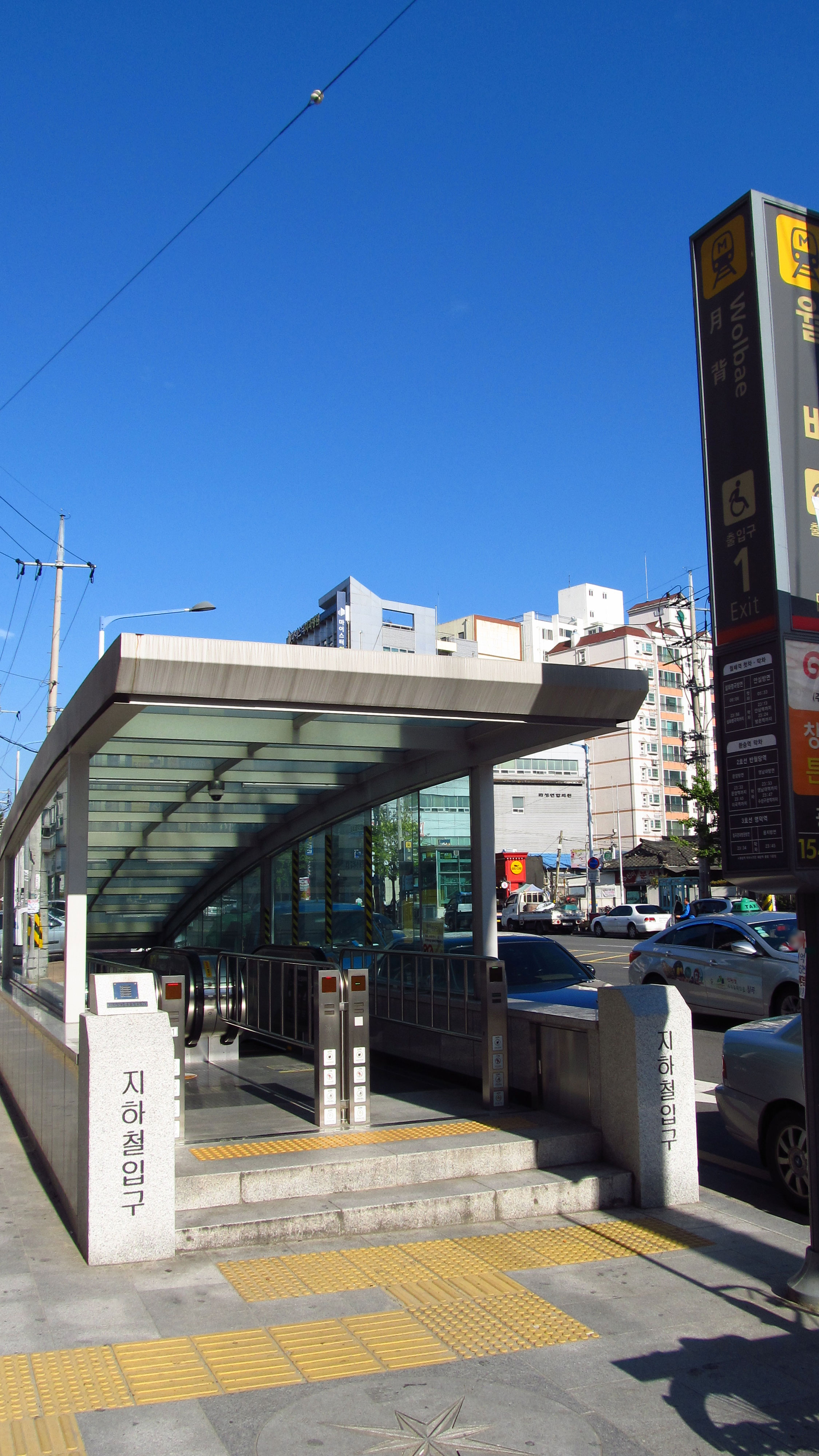 The entrance no.1 of Wolbae Station on the Daegu Metro Line 1